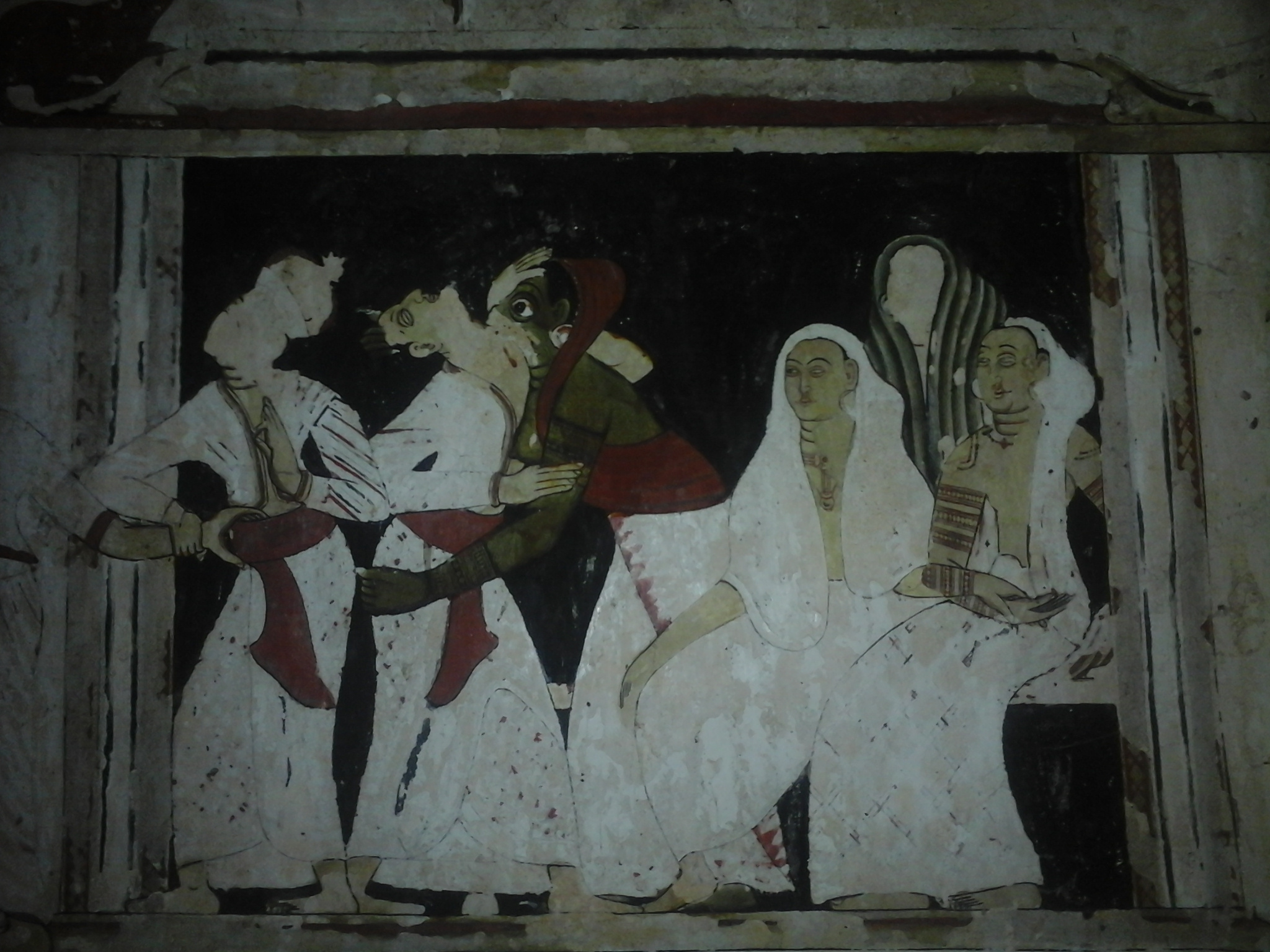 Paintings at Mulkirigala temple